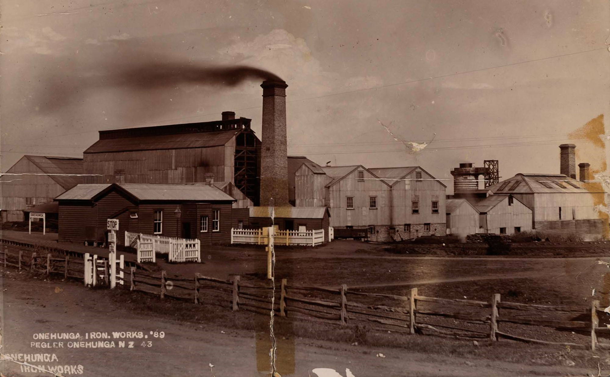 This description is taken from the Auckland Museum website: "Image showing a large factory complex comprised of a number of tin and small weatherboard buildings. A large chimney stack made of bricks rises in the centre, with black smoke coming out of the top. A simple wooden fence runs along the length of the property, with a white sign reading 'STOP' at the gate. To the left of the image, behind a dark weatherboard building, is another white sign reading 'ONEHUNGA'. To the right of the image, behind a large metal building, is a large blast furnace and two more large brick chimneys." The date of 1889 is based on the following; the number " '89 " on the handwritten caption on the image; the fact that the plant is in production as evidenced by the smoke from the chimney (making it earlier than August 1895), and the fact that the blast furnace is shown (it was under construction in July 1889 and in production in June 1890). This photograph is from the Ellen Louise McLeod collection of photographs of the Auckland Museum. The Museum's website state that there are No Known Copyright Restrictions. The image from the museum website has been cropped to improve its appearance when used on Wikipedia.